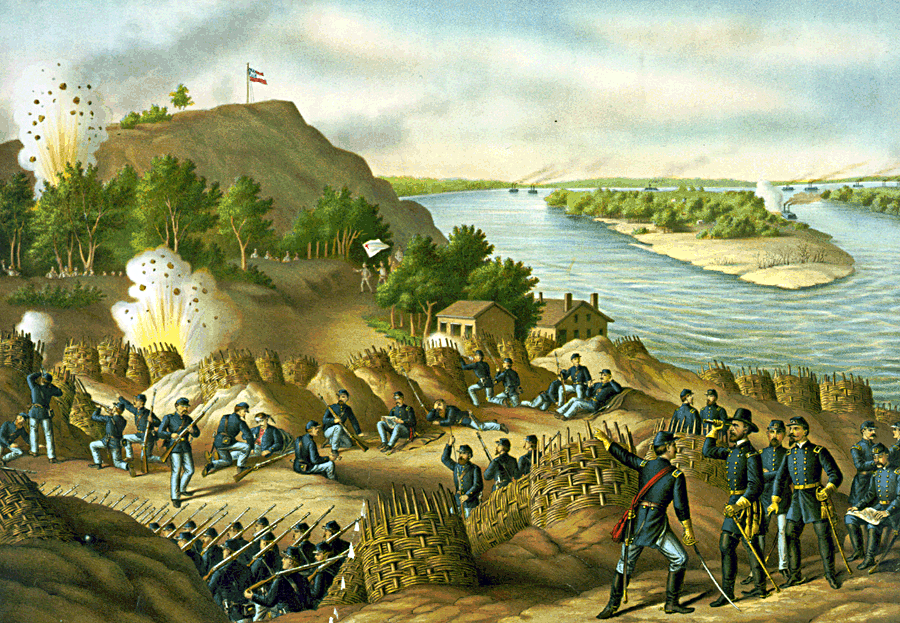 TITLE: Siege of Vicksburg--13, 15, & 17 Corps, Commanded by Gen. U.S. Grant, assisted by the Navy under Admiral Porter--Surrender, July 4, 1863, by Kurz and Allison